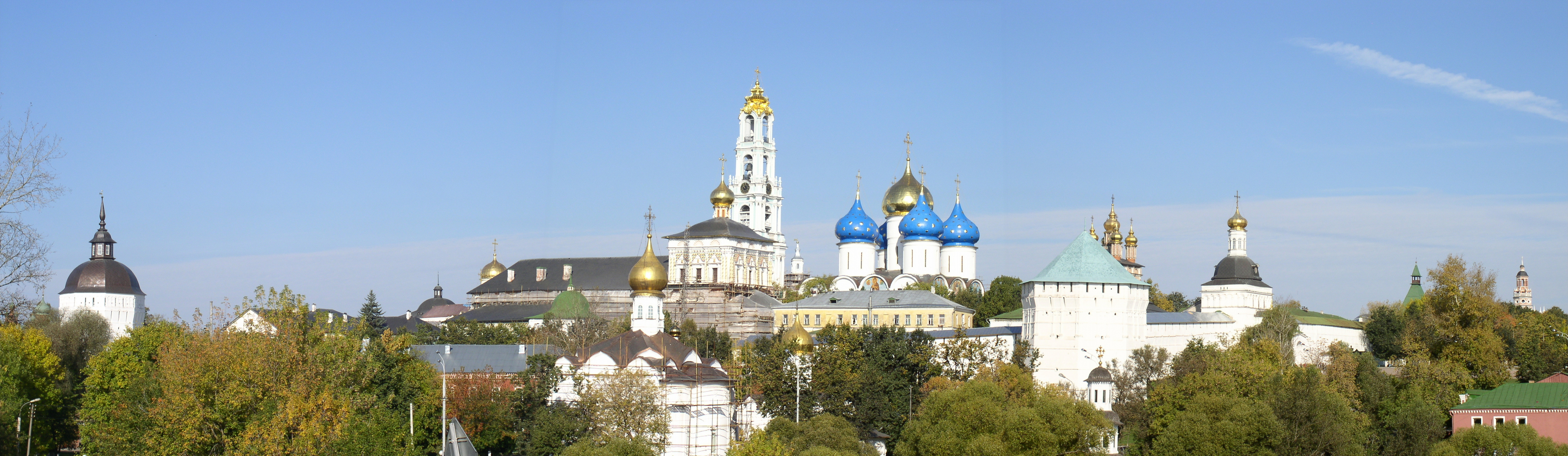 Troitse-Sergiyeva Lavra panorama. Sergiev Posad, Russia.